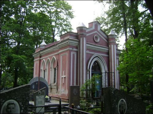 Belarusian Greek-Catholic chapel at the Catholic cemetery in Mahiliou